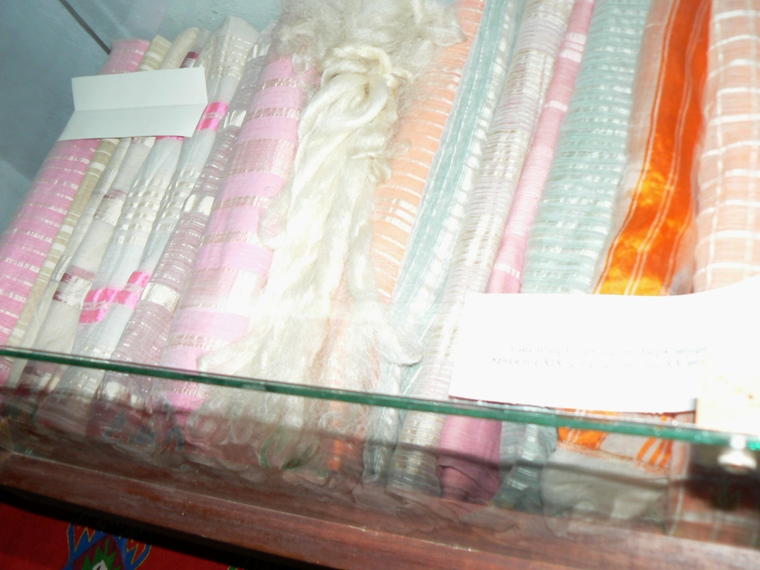 In 19th century and the beginning of 20th, Berkovitsa was famous with its silk industry. These local silk cloths are exhibited in the Ethnographic museum of Berkovitsa, Bulgaria